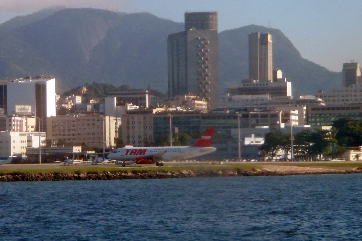 Airbus from TAM Brazilian Airlines taking off at Santos Dumont Airport, Rio de Janeiro, Brazil